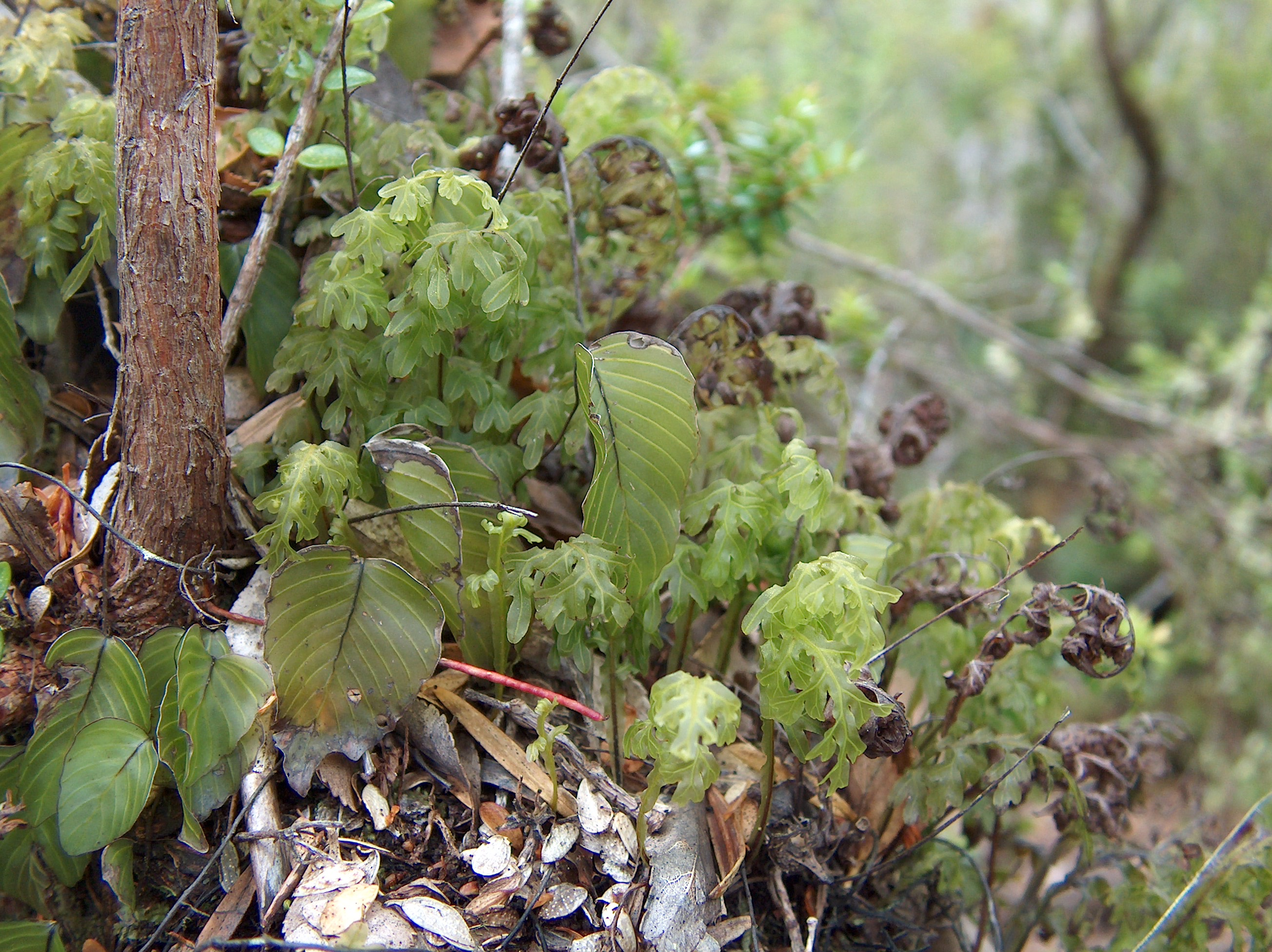 filmy ferns Hymenoglossum cruentum and Hymenophyllum caudiculatum, Family Hymenophyllaceae, 5cm high, photographed mid January 2004, Chiloe, Chile